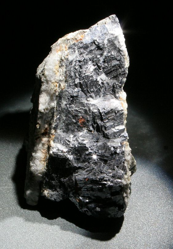 Galena